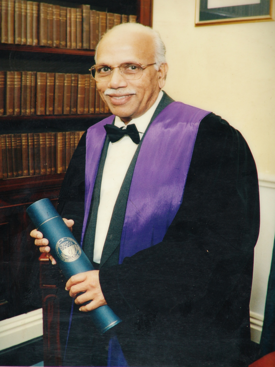 Renowned Indian physician and medical teaching professional Dr.Belle Monappa Hegde(B.M.Hegde).Photograph from personal collection.for further inquiry regarding copyright and reuse email prajwal shetty at